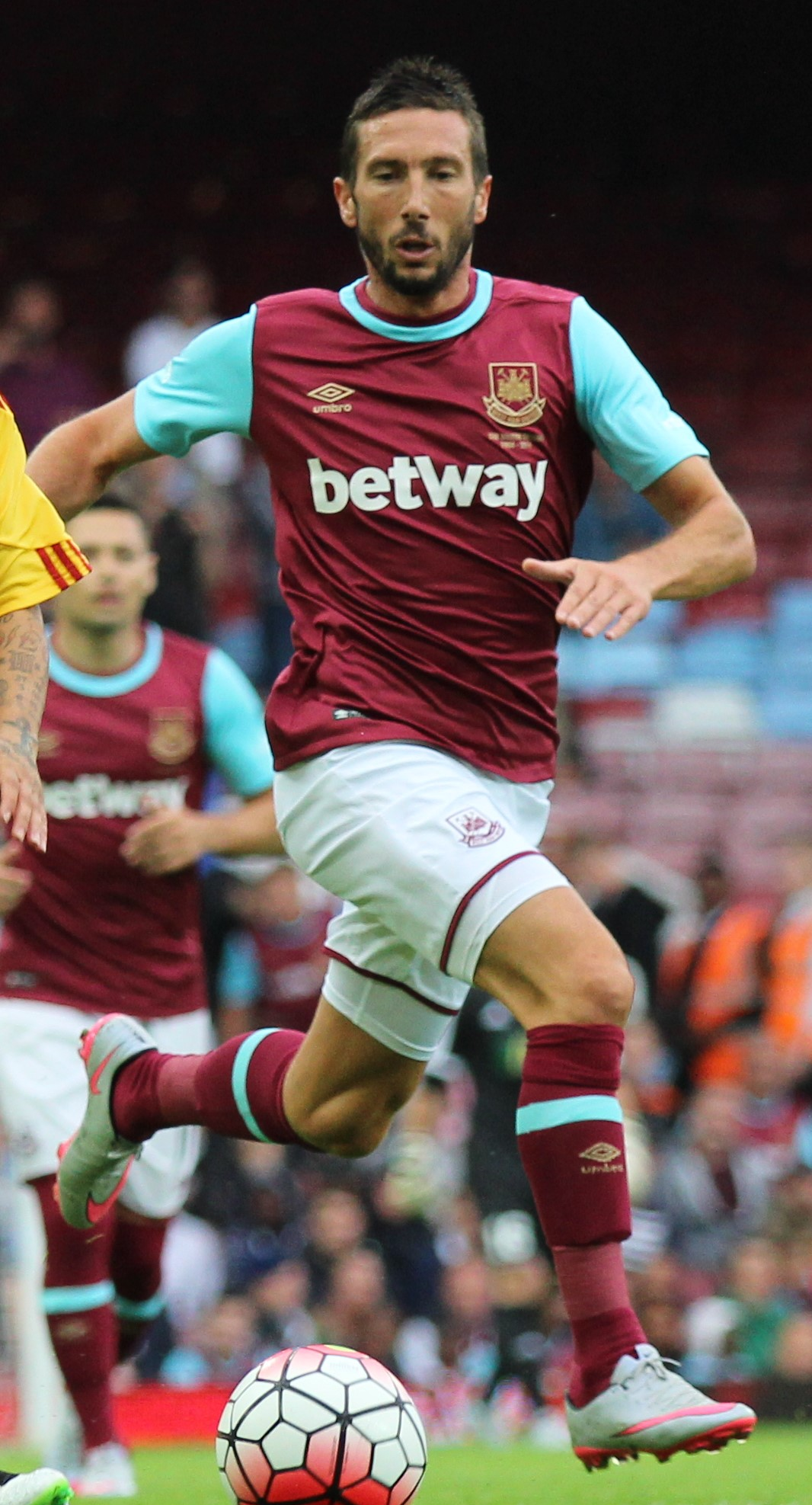 Fabrizio Miccoli of Birkirkara is chased down by Morgan Amalfitano of West Ham.